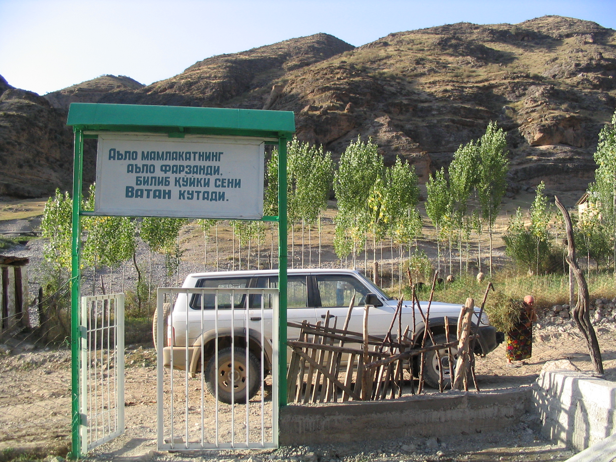 A school near Batken, Kyrgyzstan. The inscription reads "Dear excellent child of an excellent state, know that your motherland awaits you" in Uzbek. The lines are from a Gʻafur Gʻulom poem.